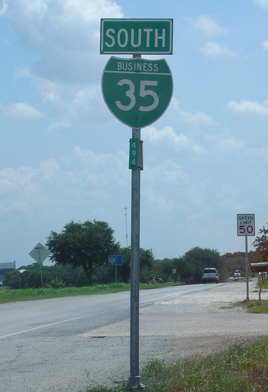 Route marker for a business route of Interstate 35. This particular one was located on Business Interstate Highway No. 35-J in Kyle, Texas, near the route's northern terminus.